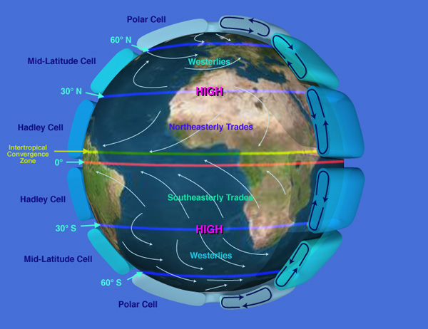 Depiction of global atmospheric circulation, showing major convection cells at various latitudes, including Hadley, mid-latitude and polar cells, and showing the resulting surface winds.